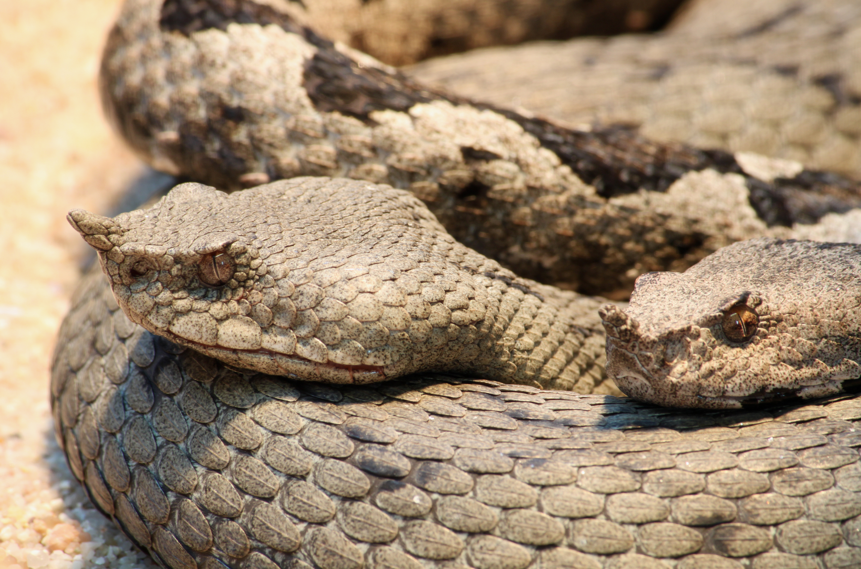 Horned Viper Vipera ammodytes ruffoi, Family: Viperidae, Location: Germany, Stuttgart, Zoological Garden